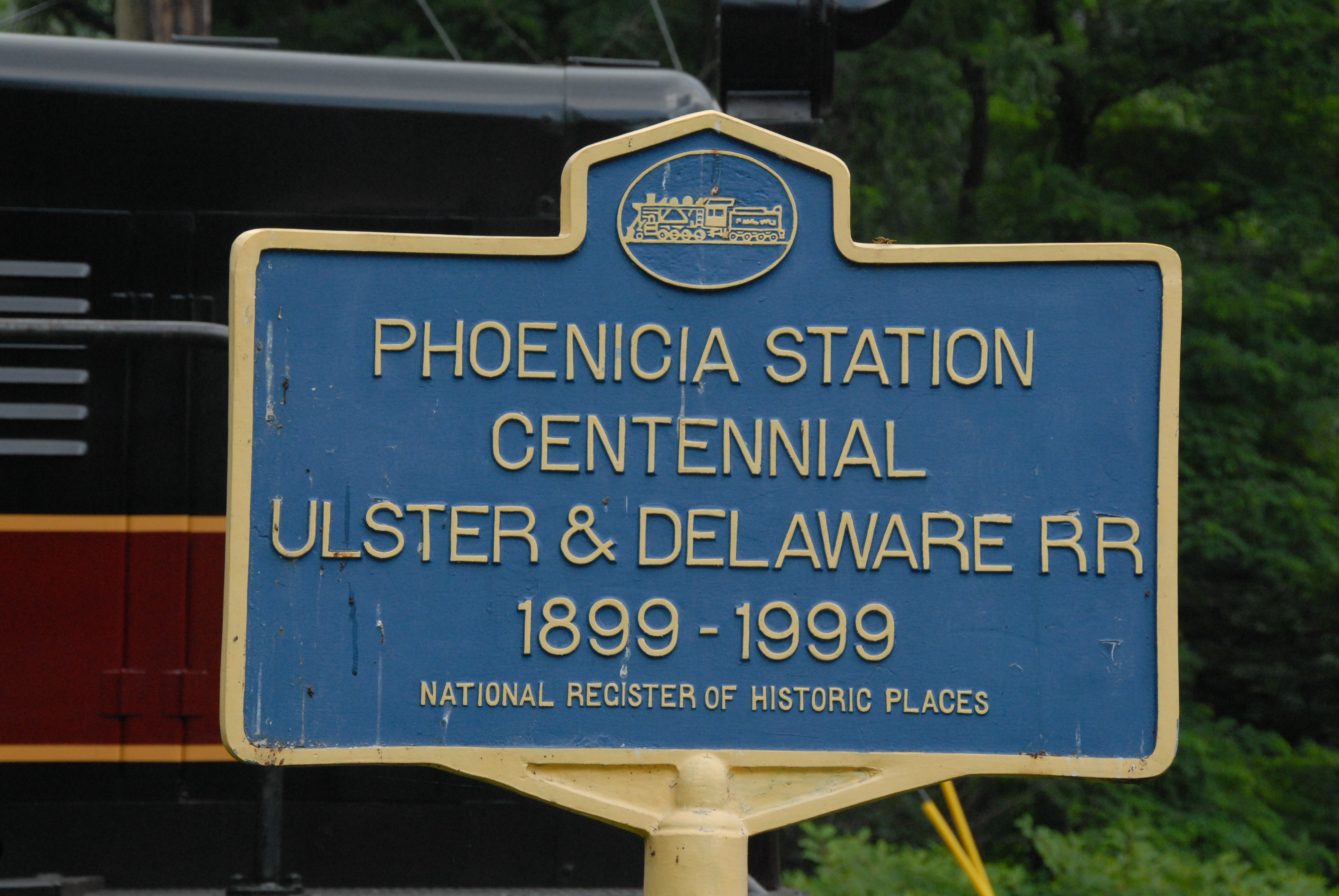 CMRR Historical Sign